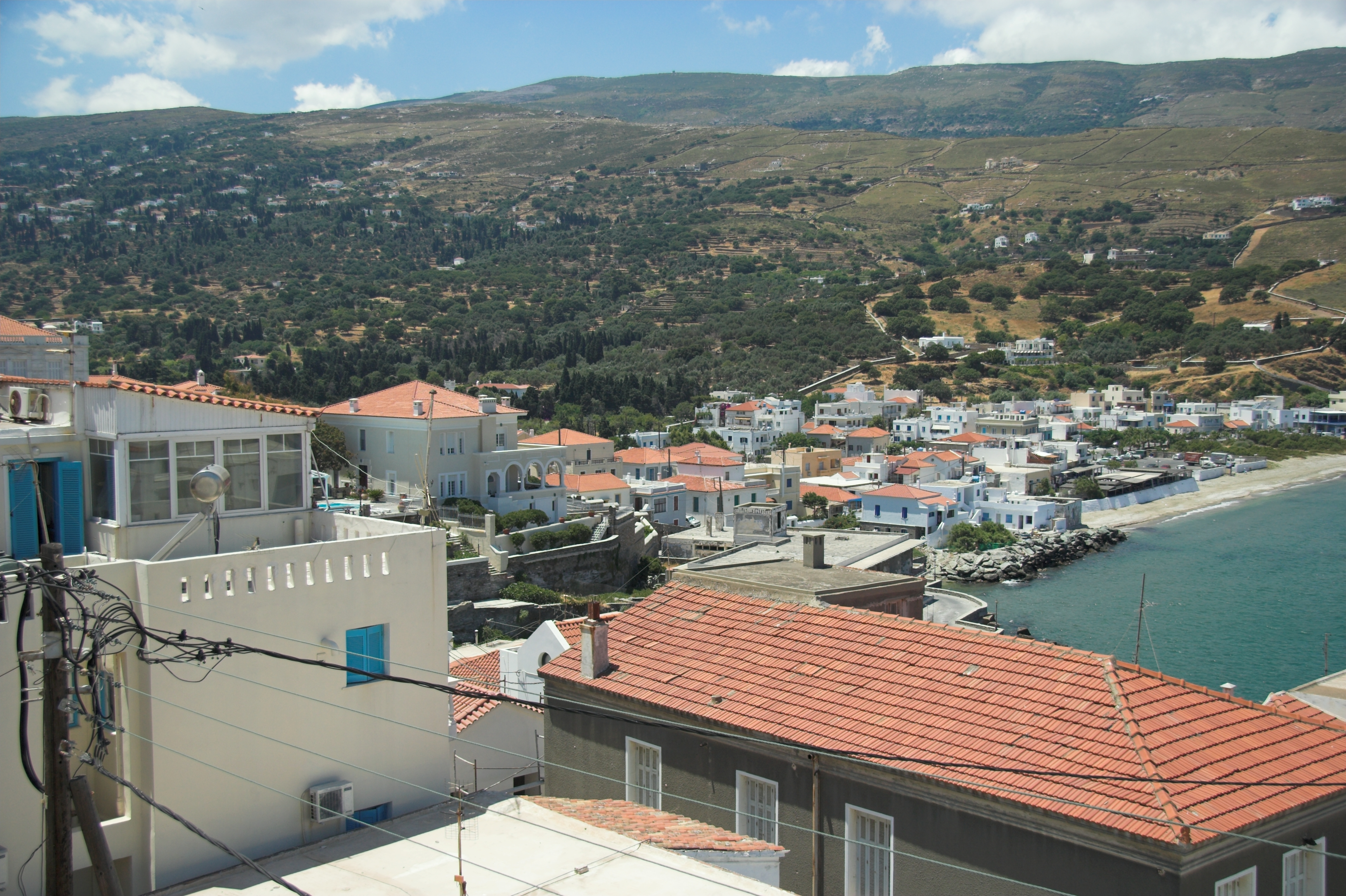 Chora of Andros, view from terrace of the Archaeological Museum.